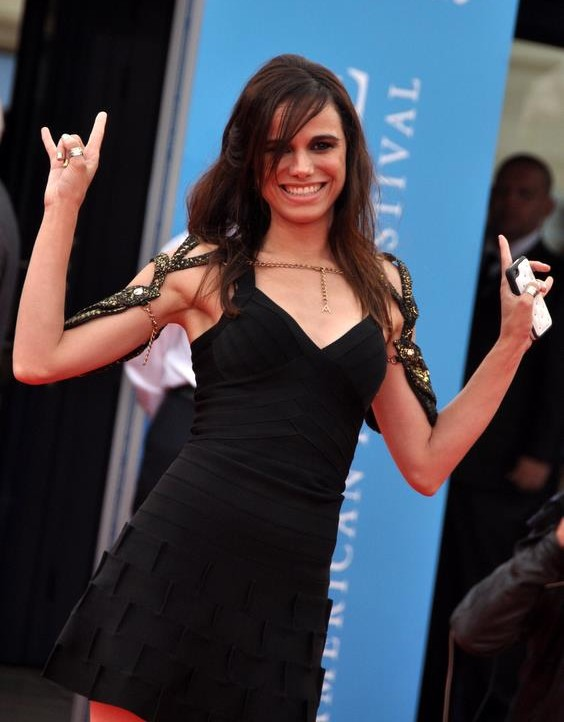 Melissa Mars at The Bourne Legacy premiere at the 2012 Deauville American Film Festival